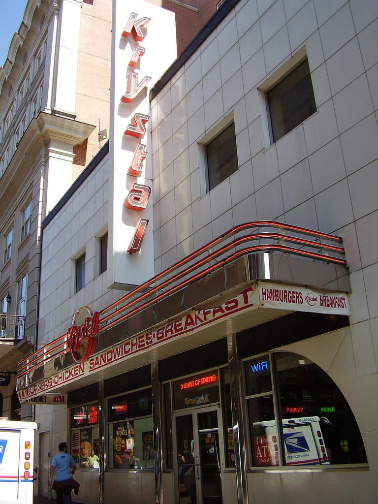 Krystal Restaurant on the 100 block of Bourbon Street, in New Orleans French Quarter. Original caption: "I can't imagine wanting a Krystal burger with all the great food available in the quarter, but it is here, all three stories of it! "